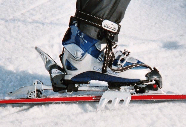 Alpine touring ski boot, binding, and ski crampon. To prevent the ski becoming lost should the boot come out of the ski binding, the ski is attached to the skier's leg by a leash as the binding is not fitted with a ski brake.